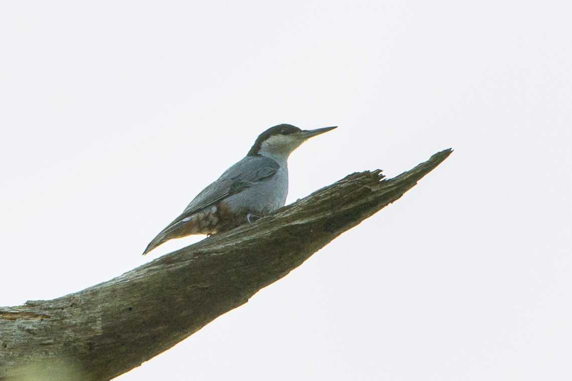 Giant Nuthatch - Chiang Mai - Thailand_S4E0503